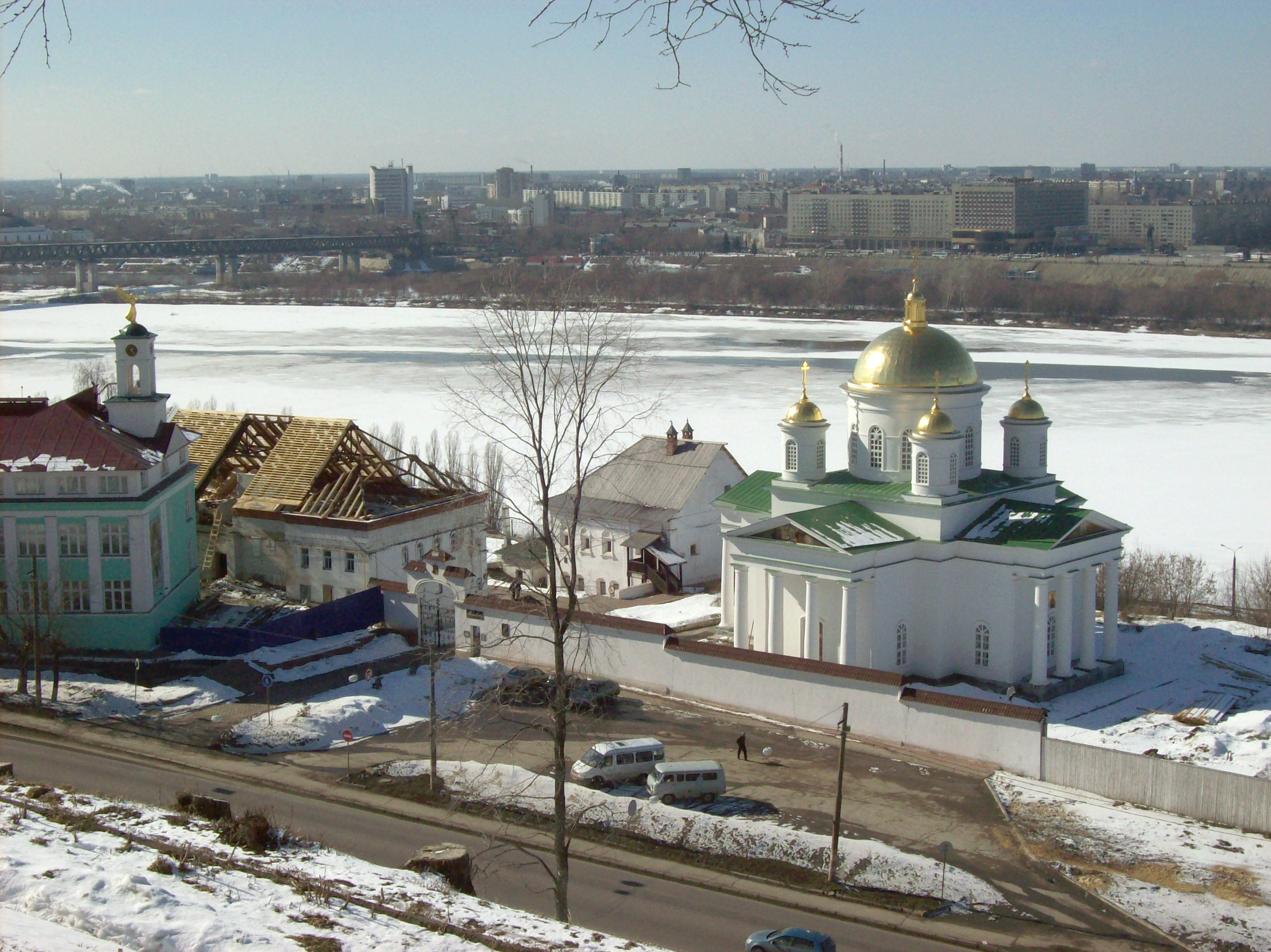 Blagoveschensky_monastery_in_Nizhny_Novgorod